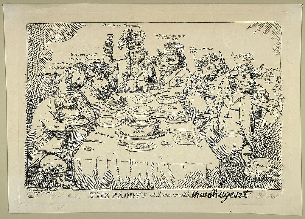 Title: The paddy's at dinner with Puddinghead [the Regent] Abstract: Print shows George, Prince of Wales, seated at a table eating and drinking with several bulls, the "Paddys", a reference to the Prince's Irish supporters, of whom two wear crowns. The illness of George III (1788-1790) raised the issue of a limited regency for the Prince. Physical description: 1 print : etching ; 27.4 x 38.8 cm. (sheet) Notes: Forms part of: British Cartoon Prints Collection (Library of Congress).; In the title "the Regent" has been written in ink over the printed text "Puddinghead."; Paper watermarked with design over "GR".; Title from item.